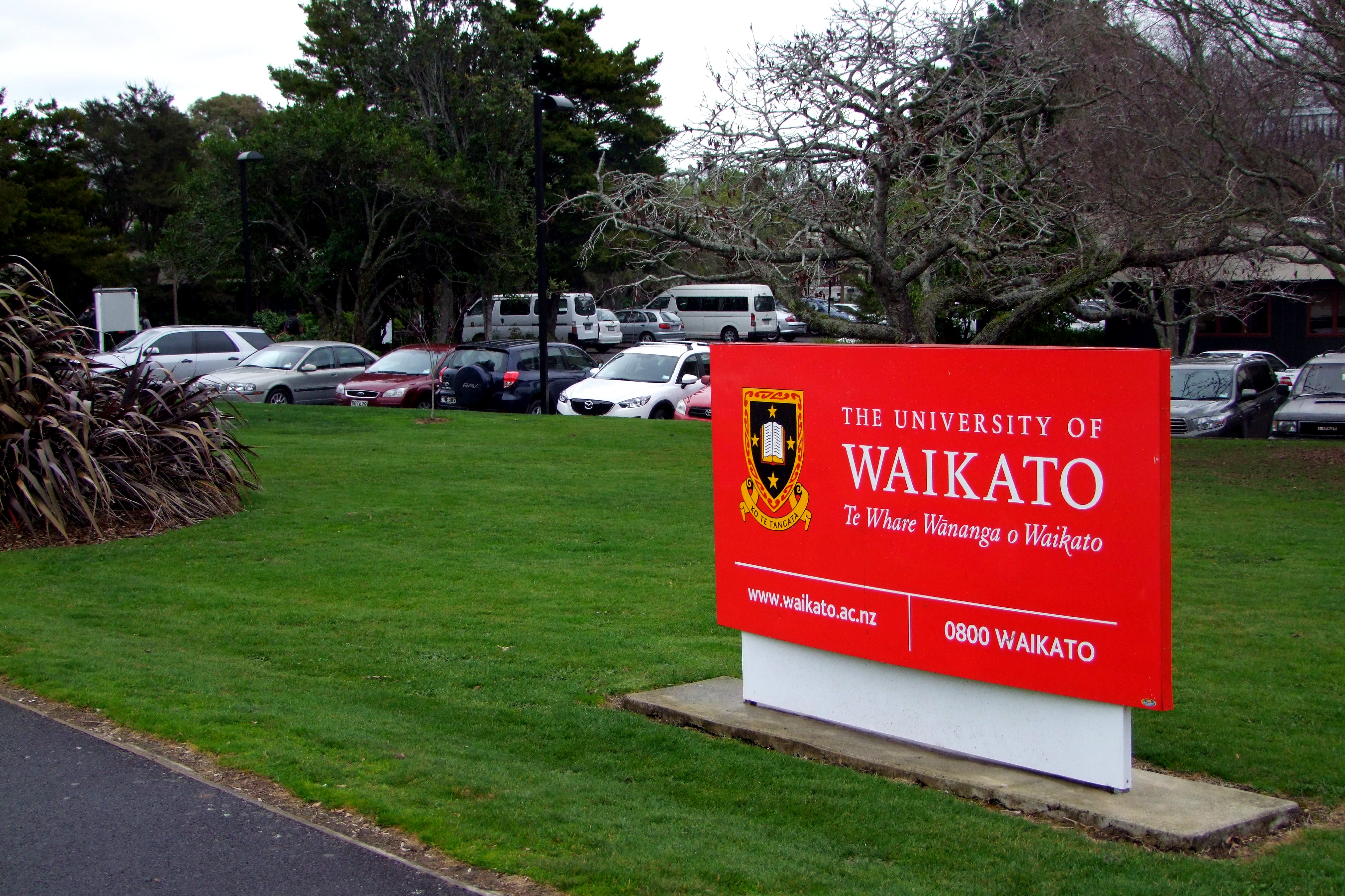 University of Waikato